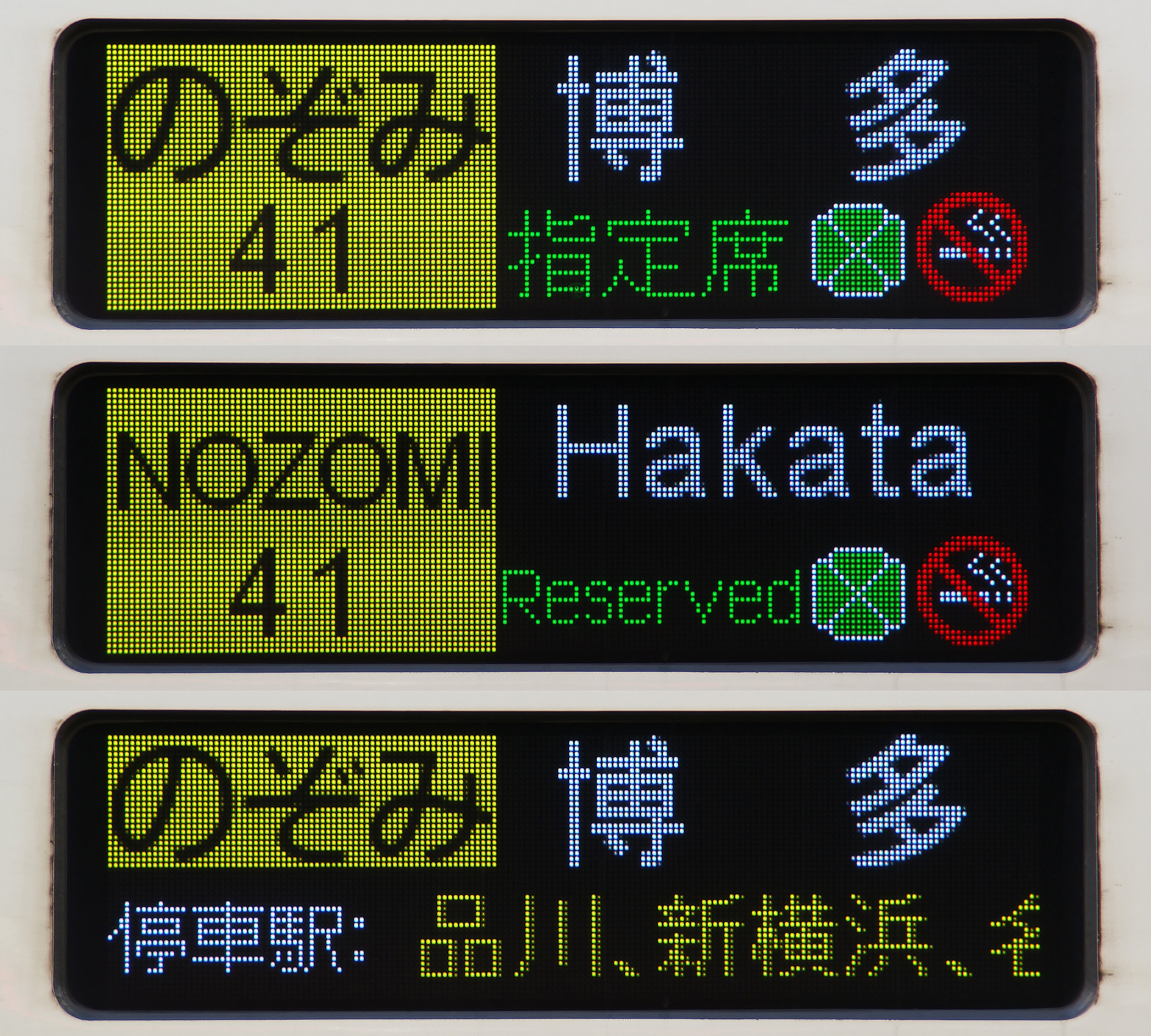 Destination Sign of West Japan Railway, Series N700-3000